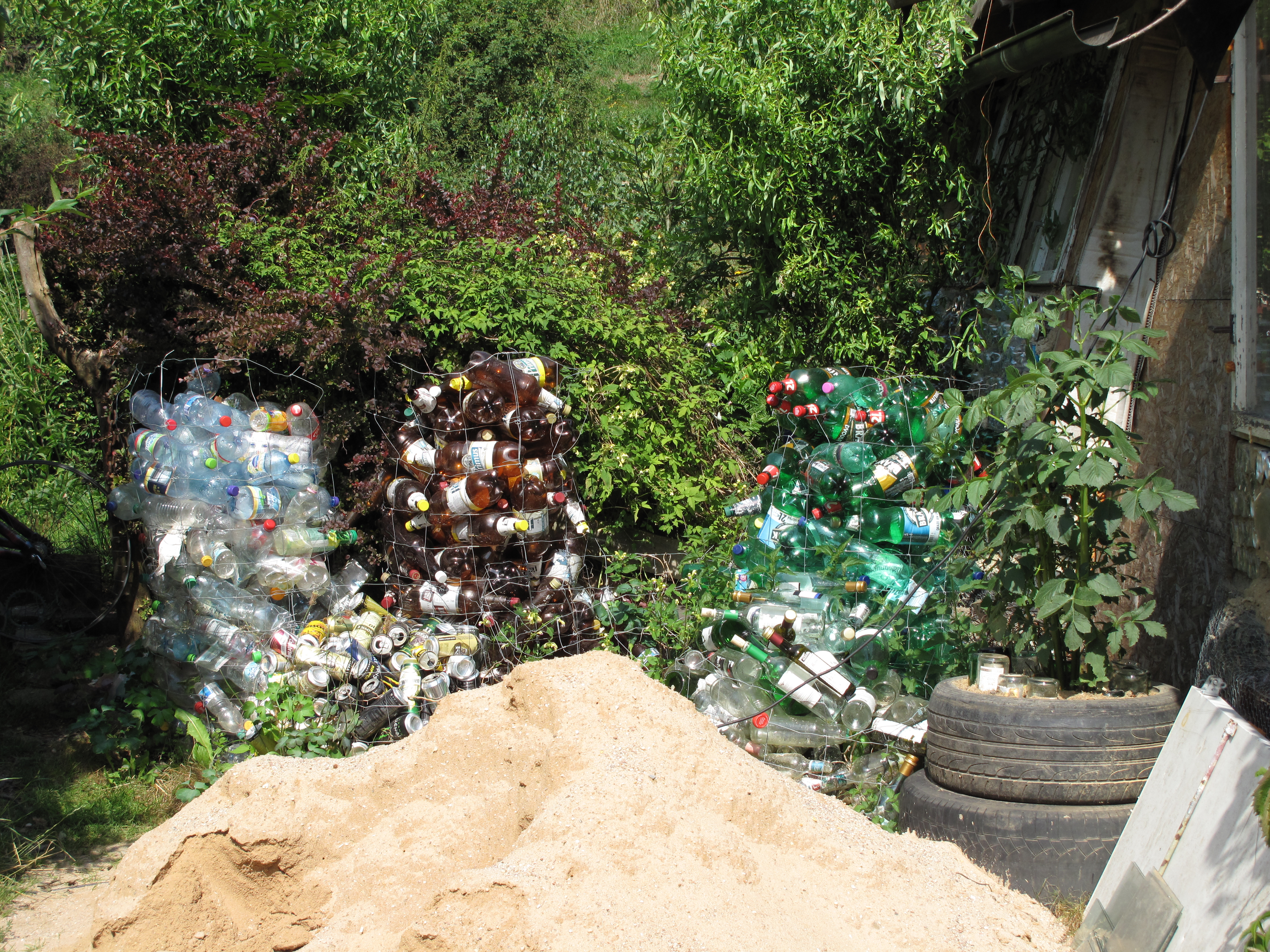 Bottles in Křivá Ves village, Prague-East District, Czech Republic.